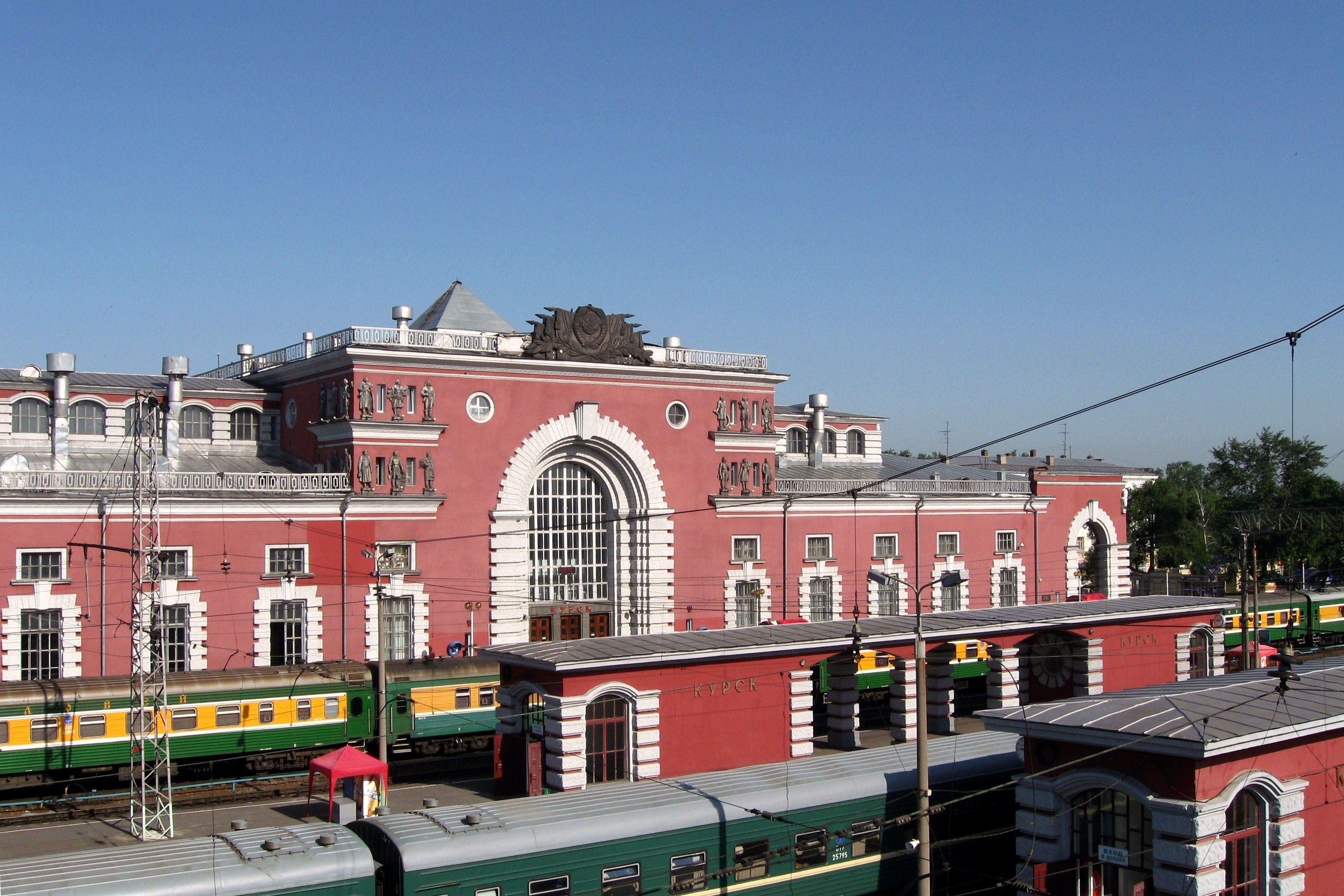 Kursk Train Station. View from foot bridge.